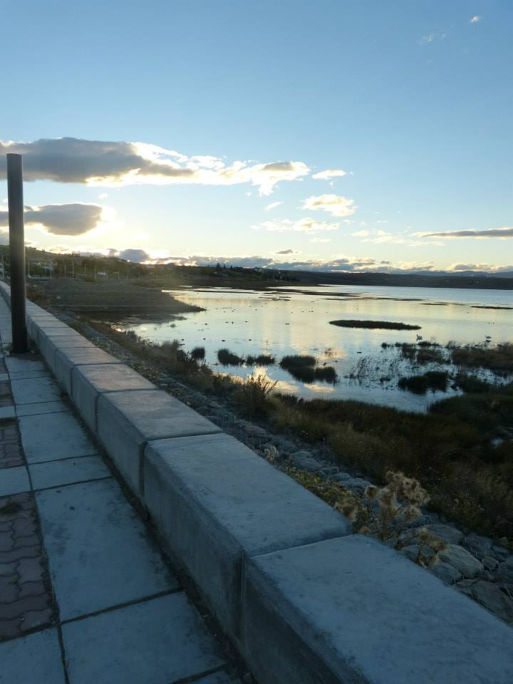 Humedal Calafateño, Paseo Costero